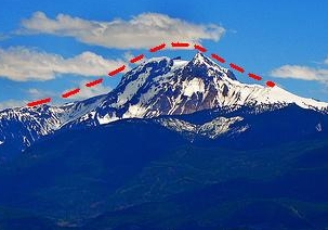 Mount Garibaldi in southwestern British Columbia, Canada. Red outline indicates the original volcano.